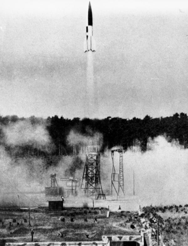 Launch of a V2; photo taken four seconds after taking off from test stand, Summer 1943